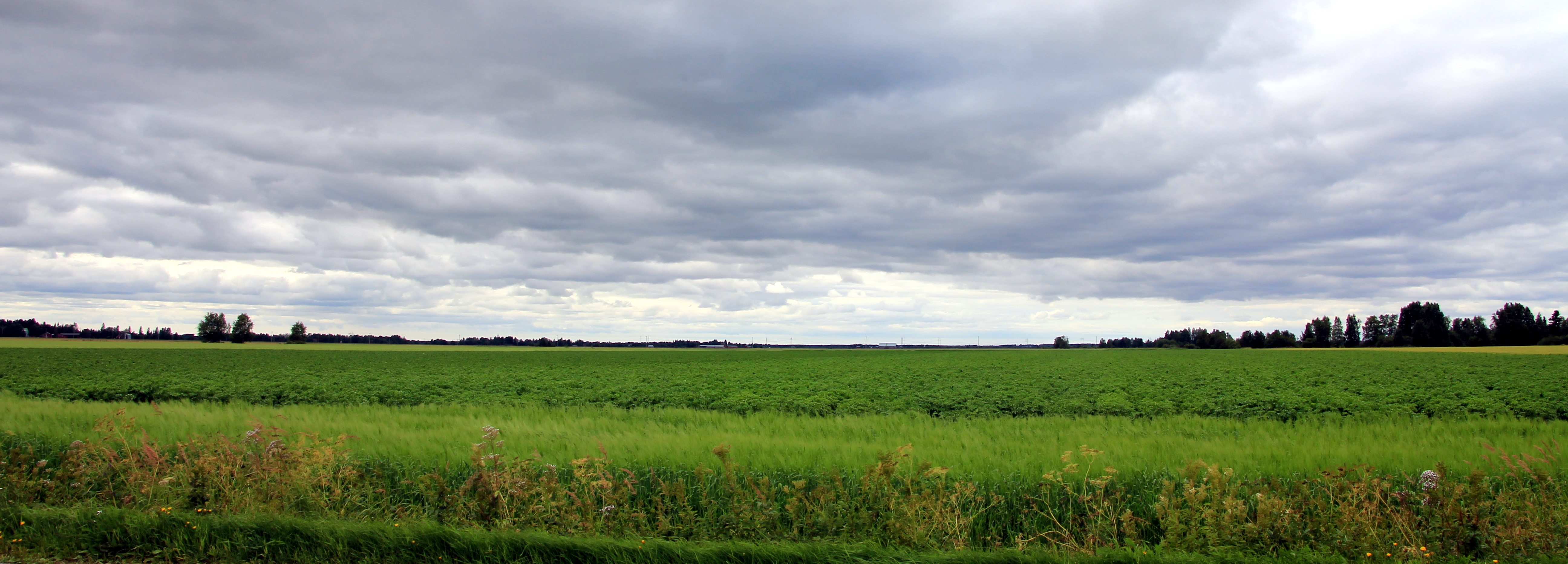 Field in Tyrnävä, Northern Ostrobothnia, Finland